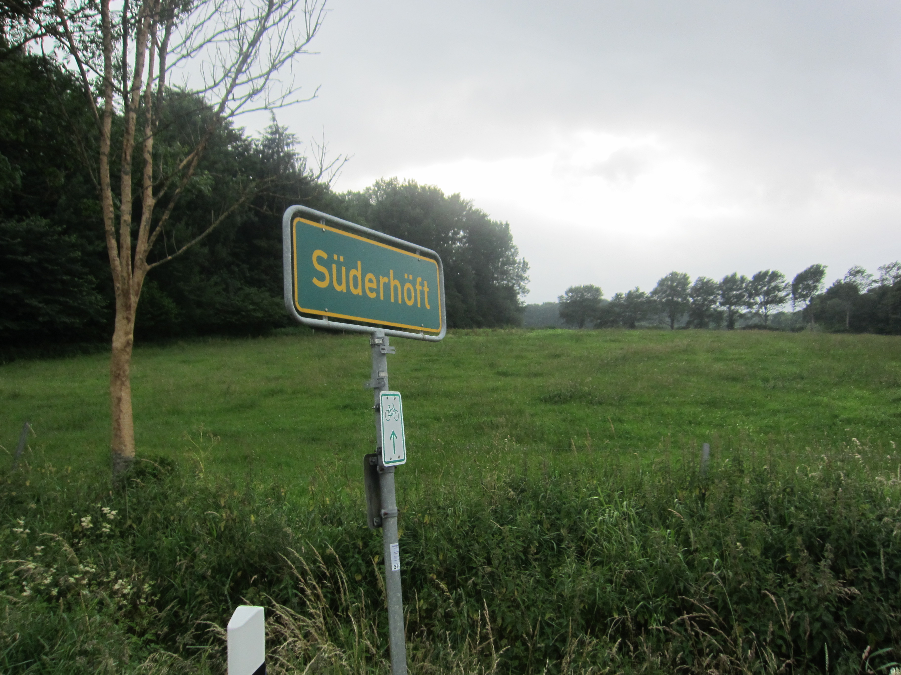 Town sign "Süderhöft"